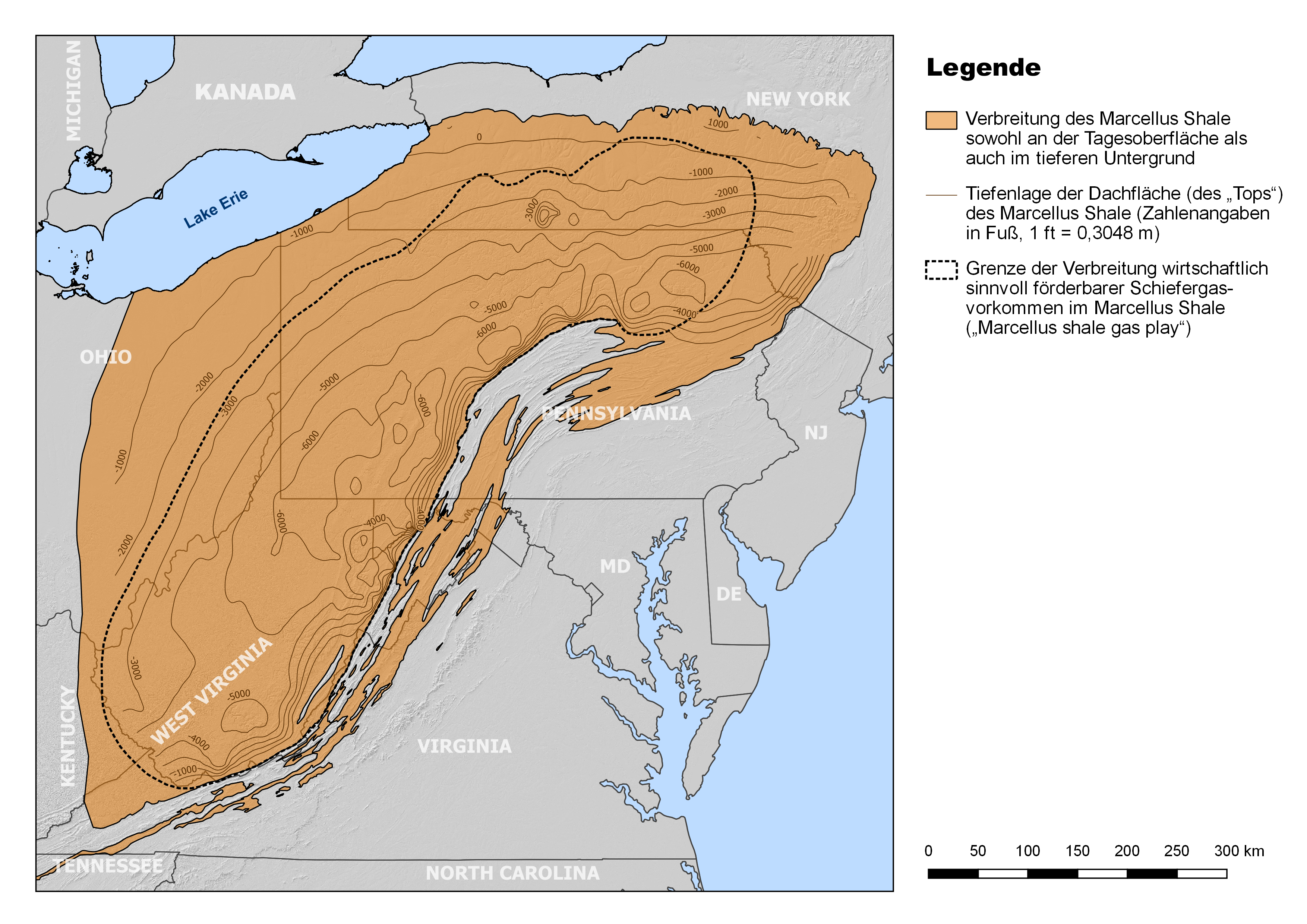 Geographic extent of the Middle Devonian Marcellus Shale in the northeastern U.S. (Appalachian Basin) with indication of the depth of the top surface of the formation (given in feet relative to sea level). As it is obvious from the map, the by far greater portion of the formation lies deep below the surface, reaching maximum depths of more than 6000 ft near the Allegheny Front. The latter is also approximately congruent with the eastern margin of the Marcellus shale gas play.